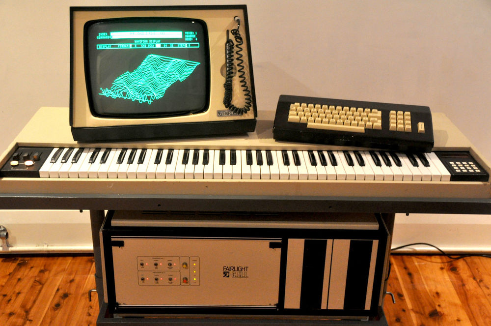 Fairlight CMI IIx system in action.